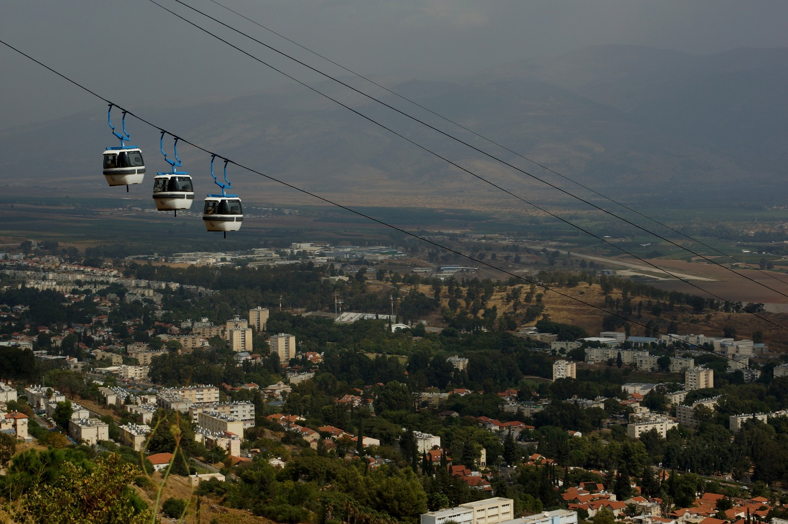 Geography of Israel